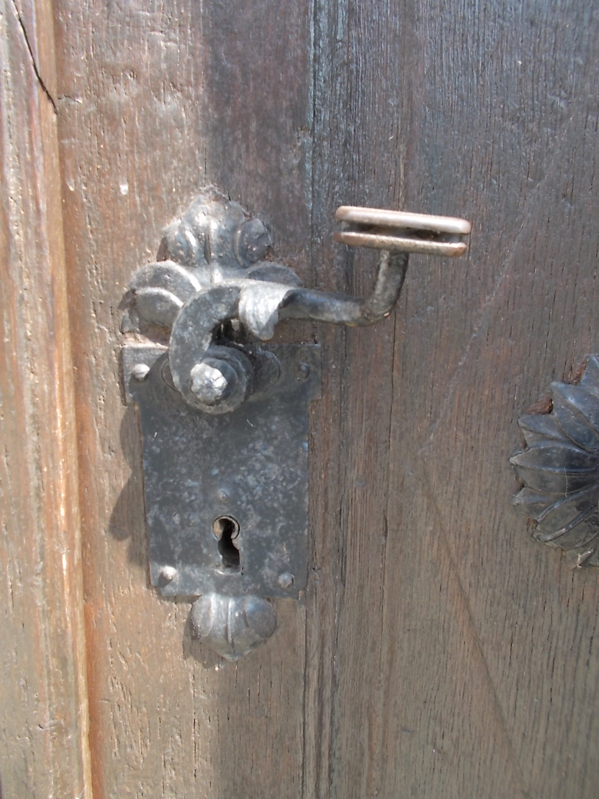 Saint Roch and Sebastian chapel built by Dávid Pummerschein, renovated around 1820-1830. From 1830 it was the burial place of the Vigyázó family. - Rókus street Paks, Tolna County, Hungary.